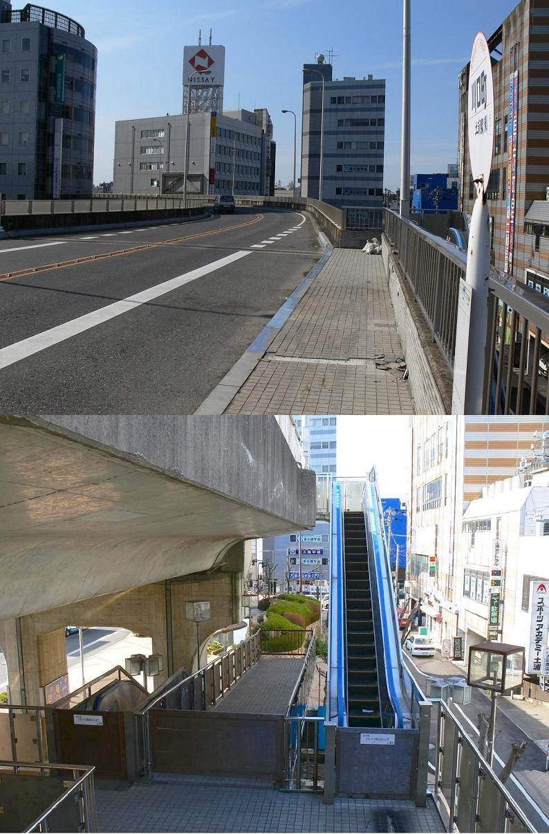 Bus stop of Tsuchiura new way (Japan)Ja:土浦ニューウェイに設けられたバス停（川口町バス停） 上の画像がバス停、下の画像がバス停下にあるエスカレーターと階段部分。 It is an image of the bus stop sideward on the elevated road in Tsuchiura City in Japan. See also Ja:土浦ニューウェイ for more information(written in Japanese).